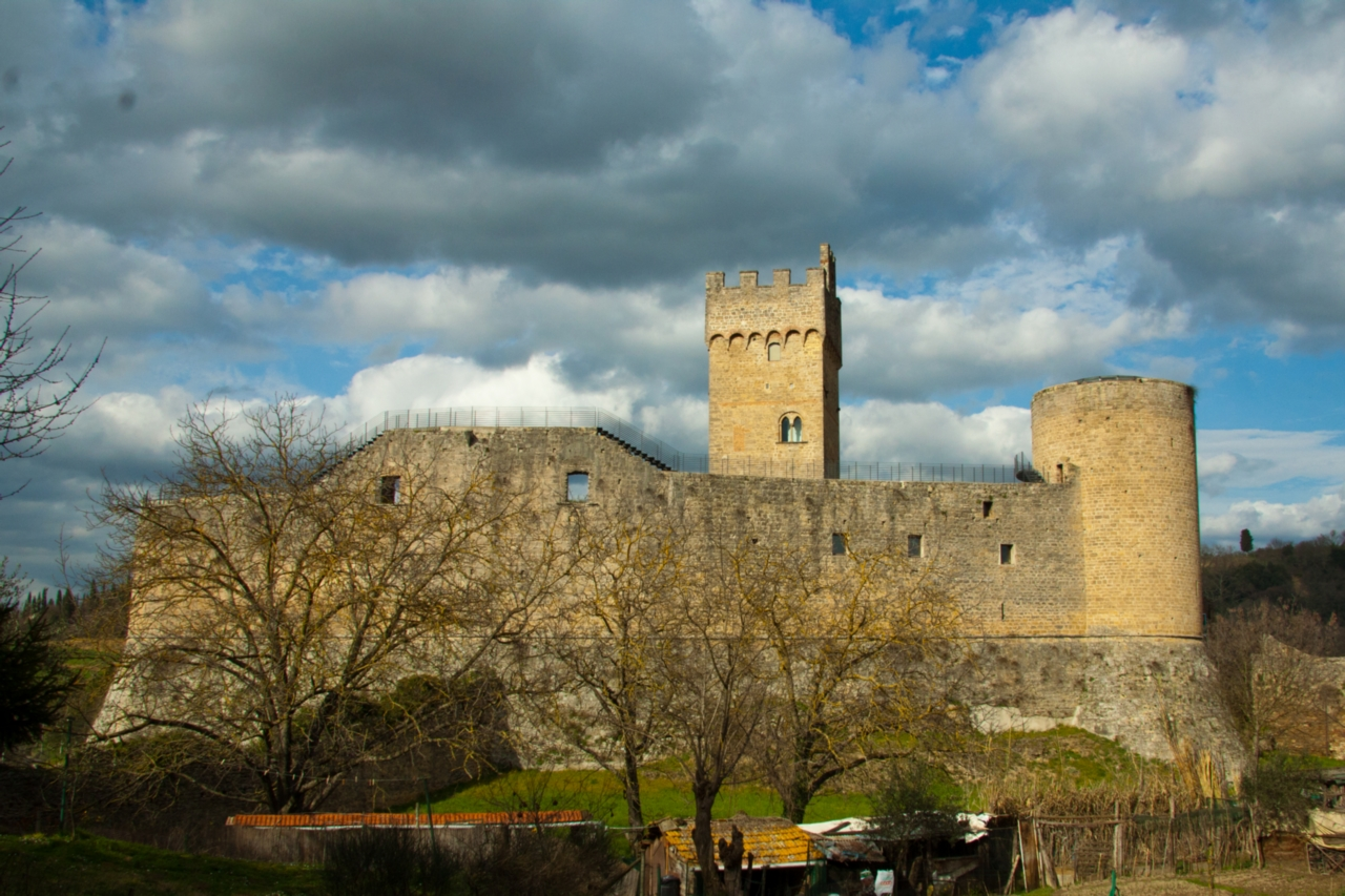 Staggia Senese castle